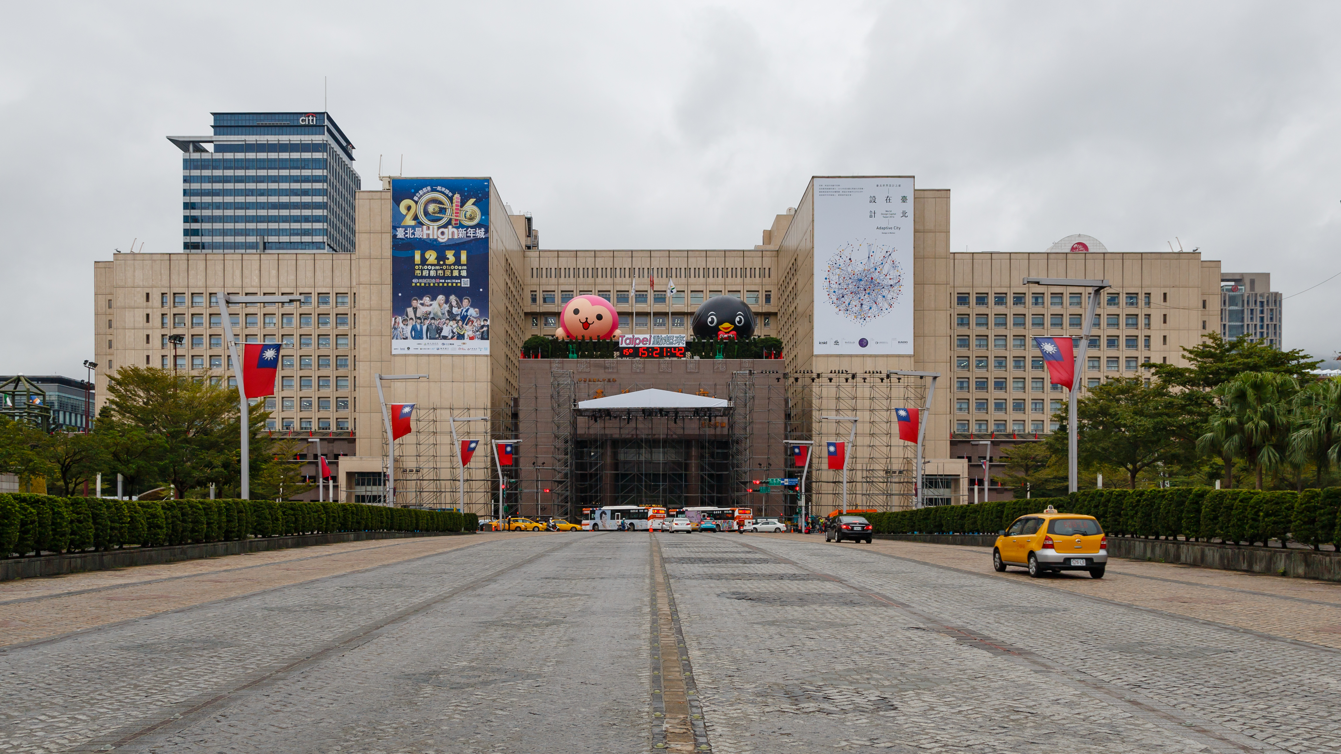 Taipei, Taiwan: Taipei City Hall.